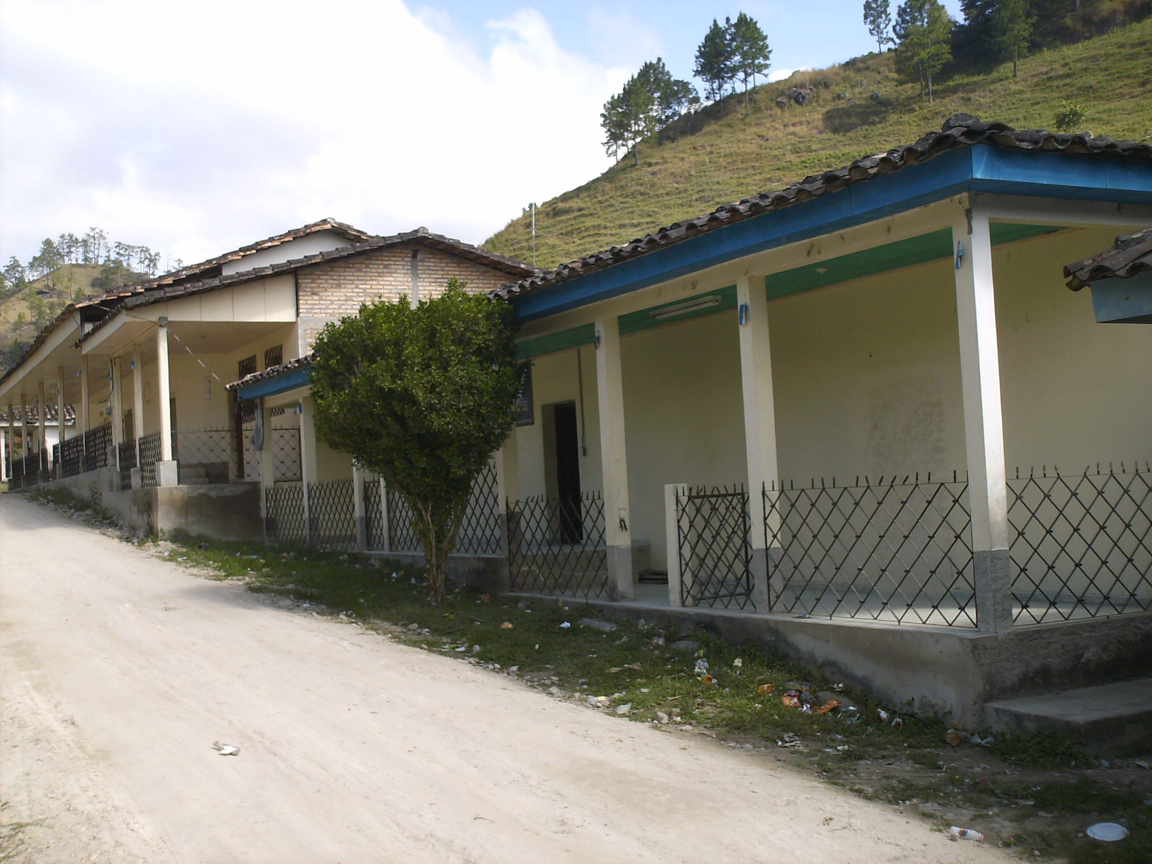 La Iguala, municipality in the Honduran department of Lempira.